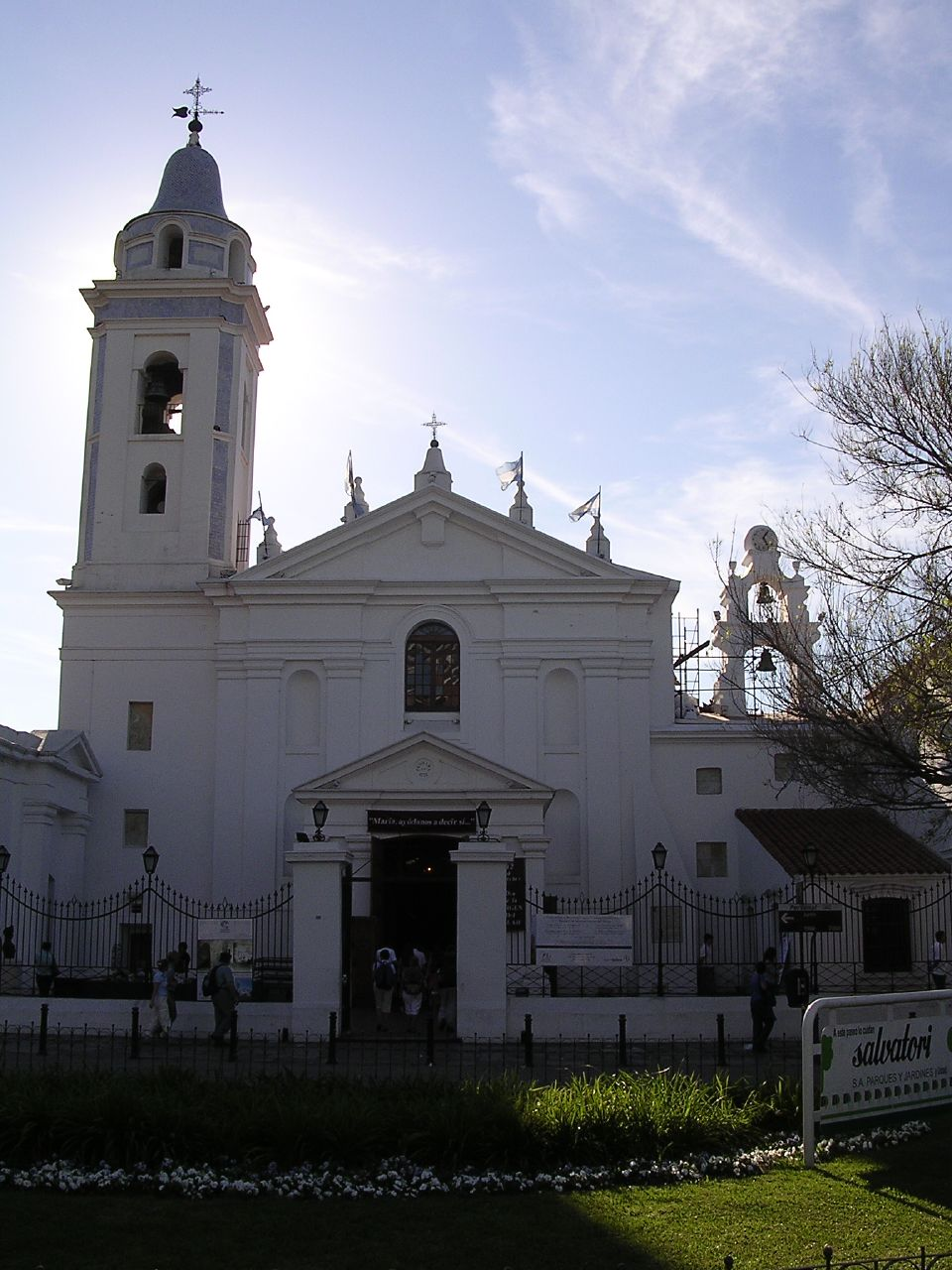 Nuestra Señora del Pilar Church, Buenos Aires, Argentina. Date: October 11th, 2005 Source: Licensing: The author granted a GFDL license as requested by Usuario:Barcex